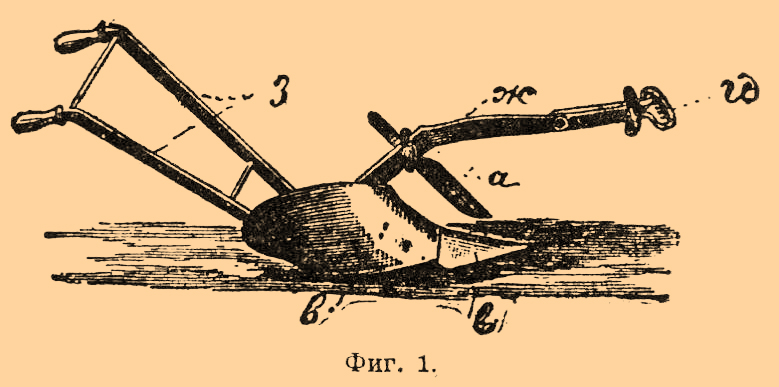 Illustration from Brockhaus and Efron Encyclopedic Dictionary (1890—1907)